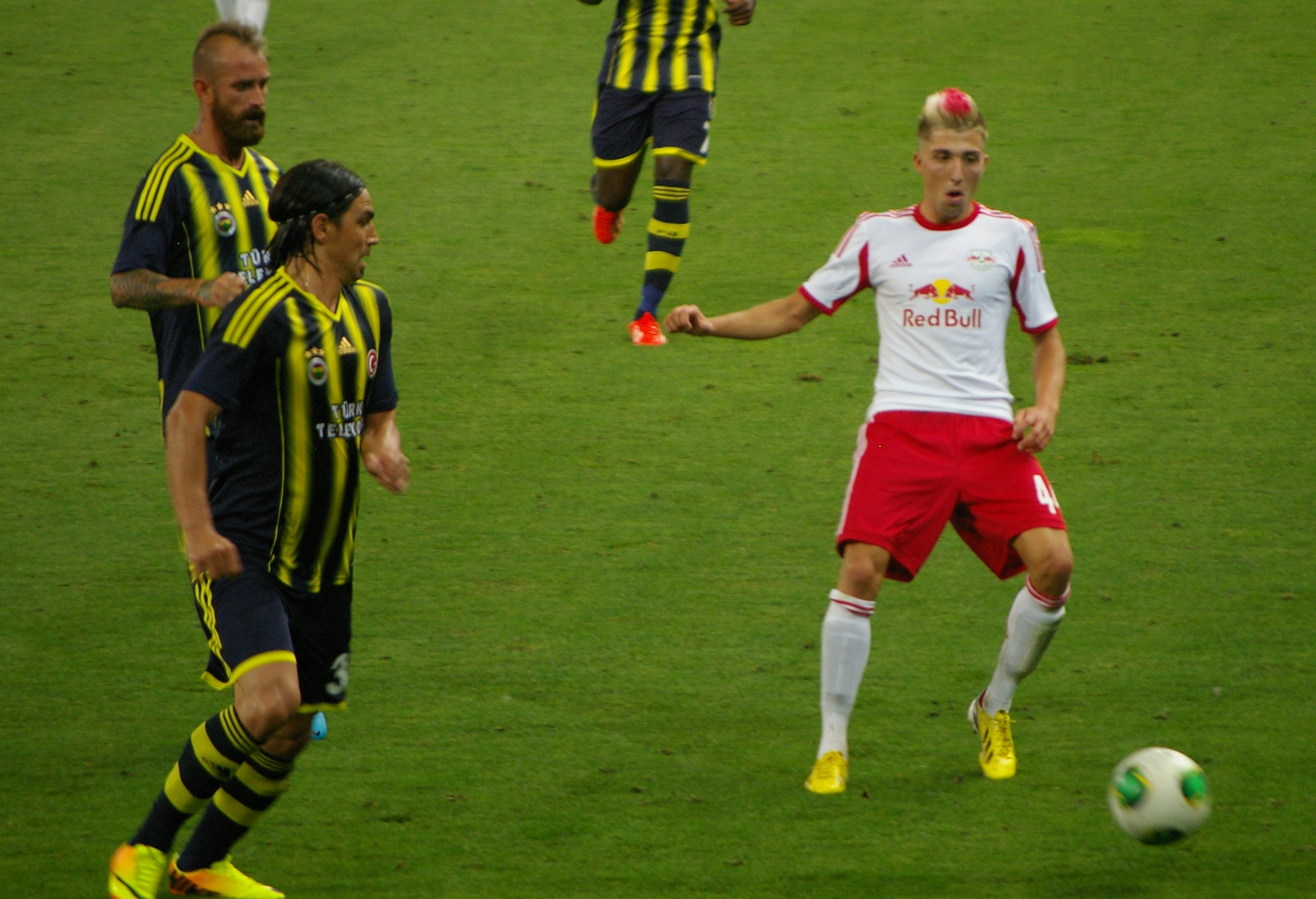 CL Qualifing match